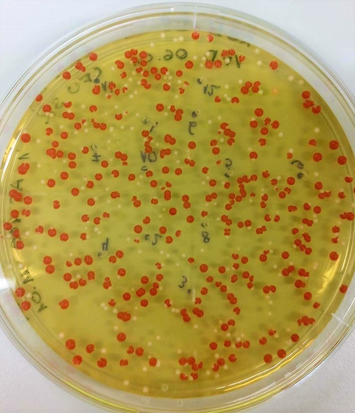 Petite colonies induced with ethidium bromide in ade-mutant yeast